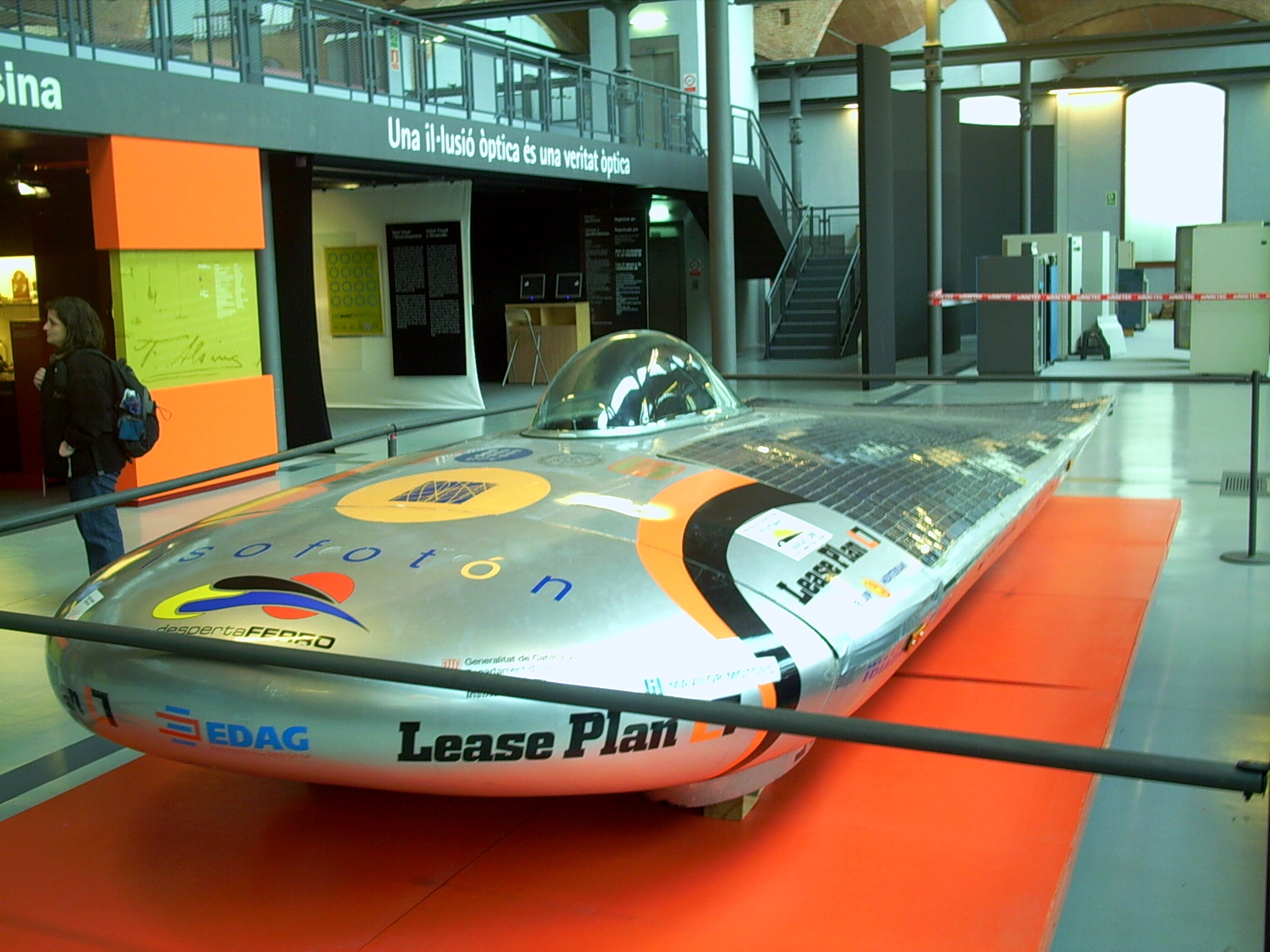 Solar vehicle Despertaferro (1988), at the mNATEC, Terrassa, (Catalunya).